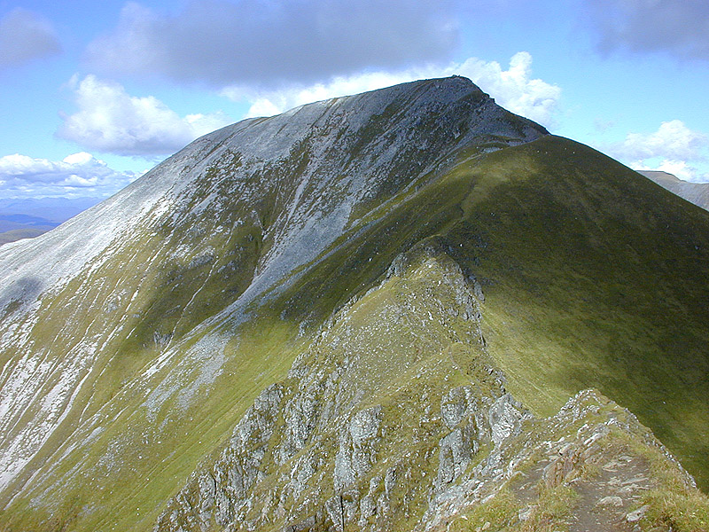 Sgùrr a' Mhaim and the Devil's Ridge Taken just as the ridge drops down to the hiatus in the ridge.